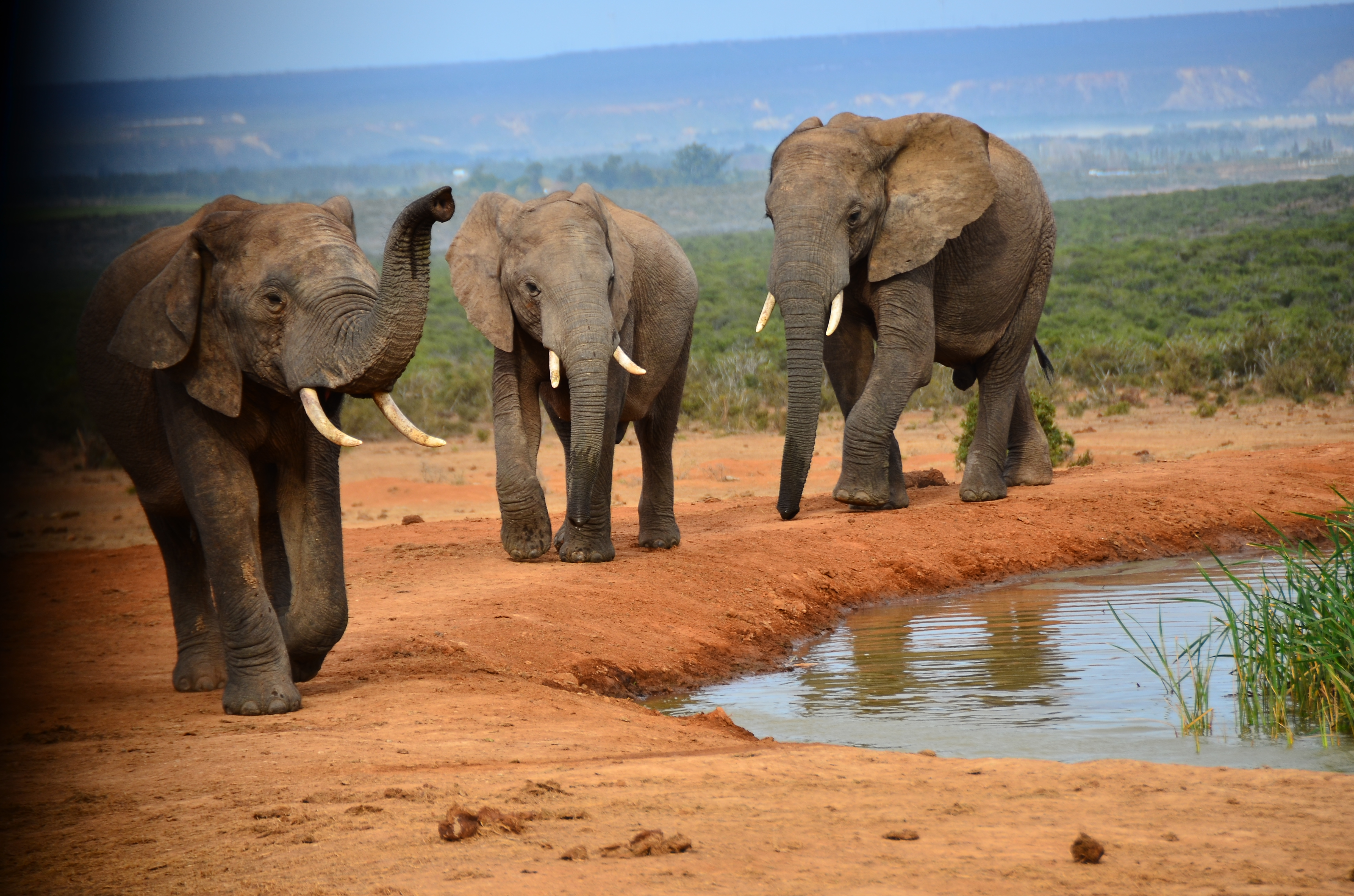 African elephant in Addo park (South Africa)